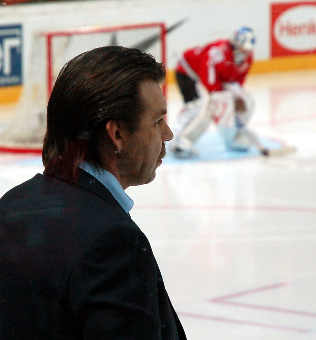 Latvian ice-hockey coach Oļegs Znaroks